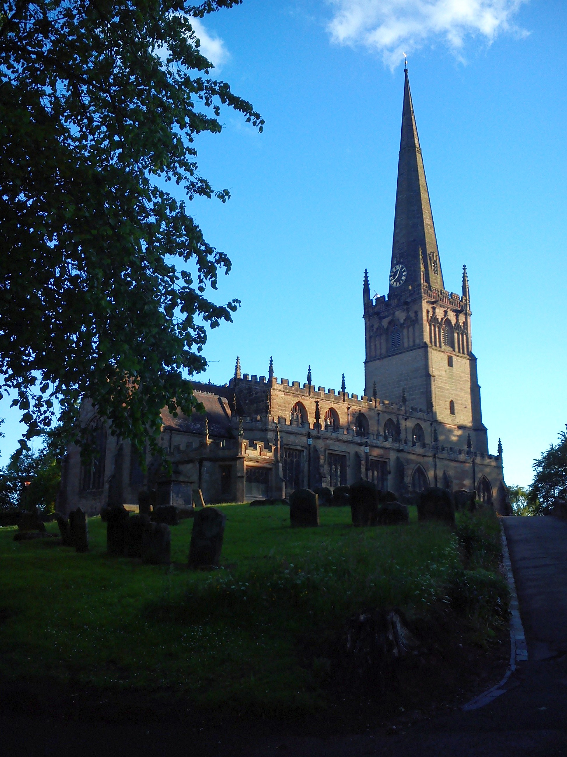 St John the Baptist Church, Bromsgrove, in May 2015